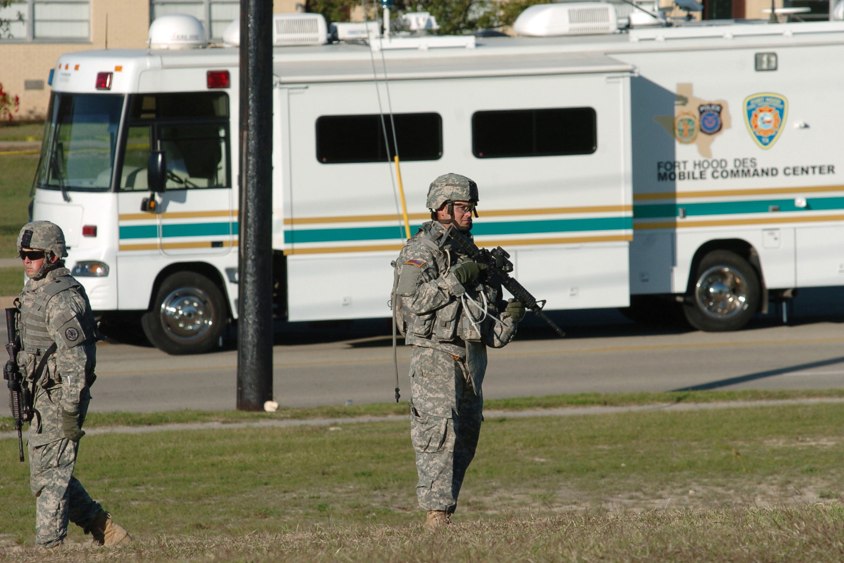 A Soldier stands guard outside a Mobile Command Post at Fort Hood, Texas, Nov. 5, 2009, following a gunman's attack that left 13 dead and 30 wounded. See more at